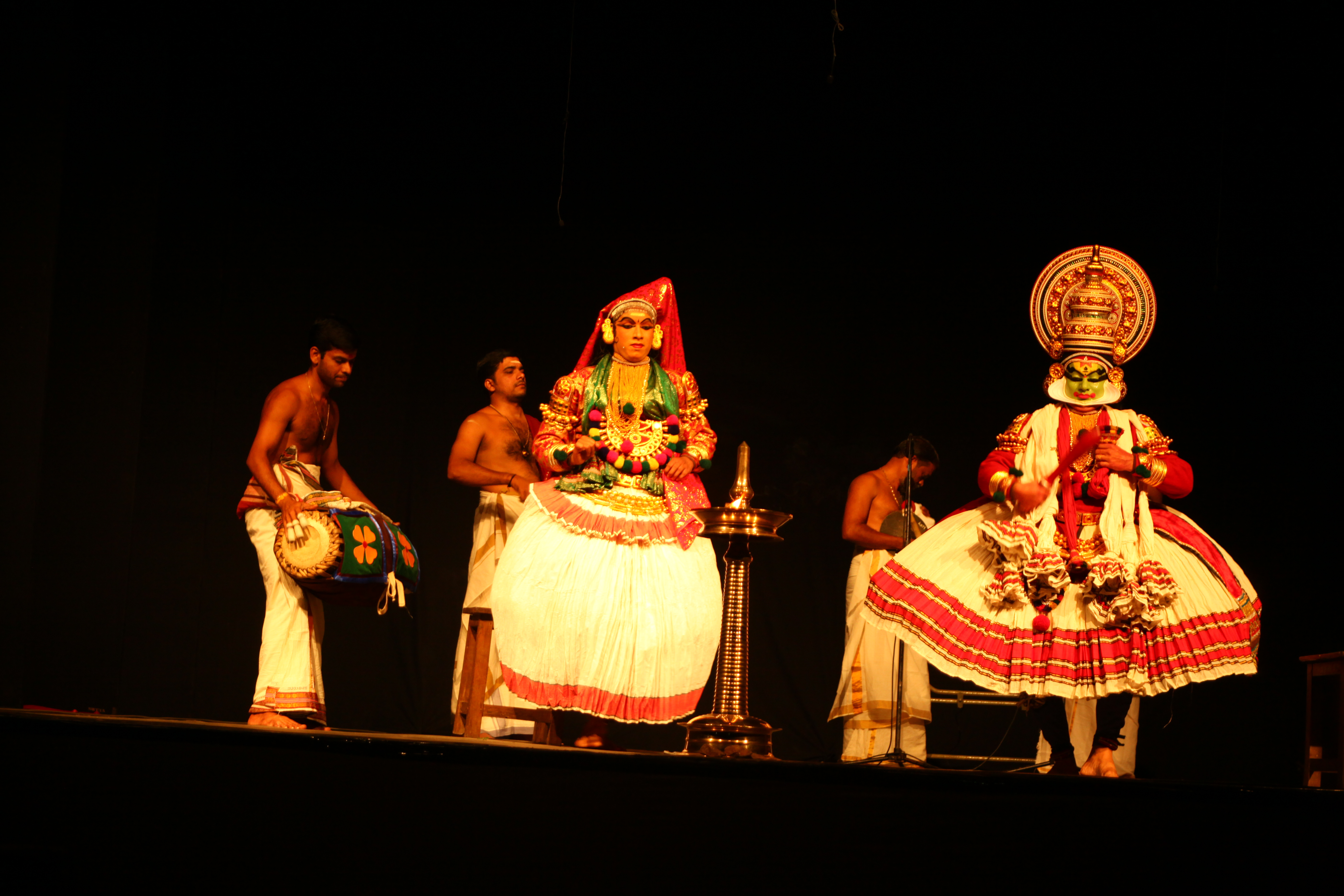 This media file is uploaded with Malayalam loves Wikimedia event - 3.